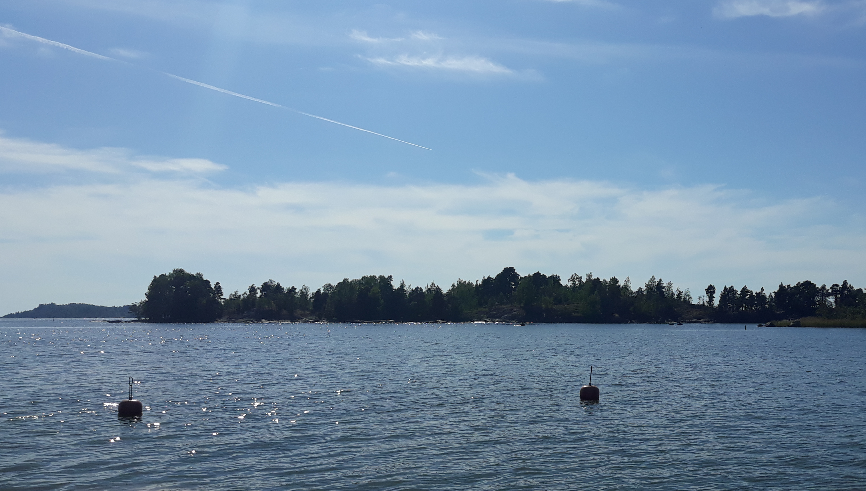 Pitkäluoto in Helsinki, as seen from the shore of Stansvik.